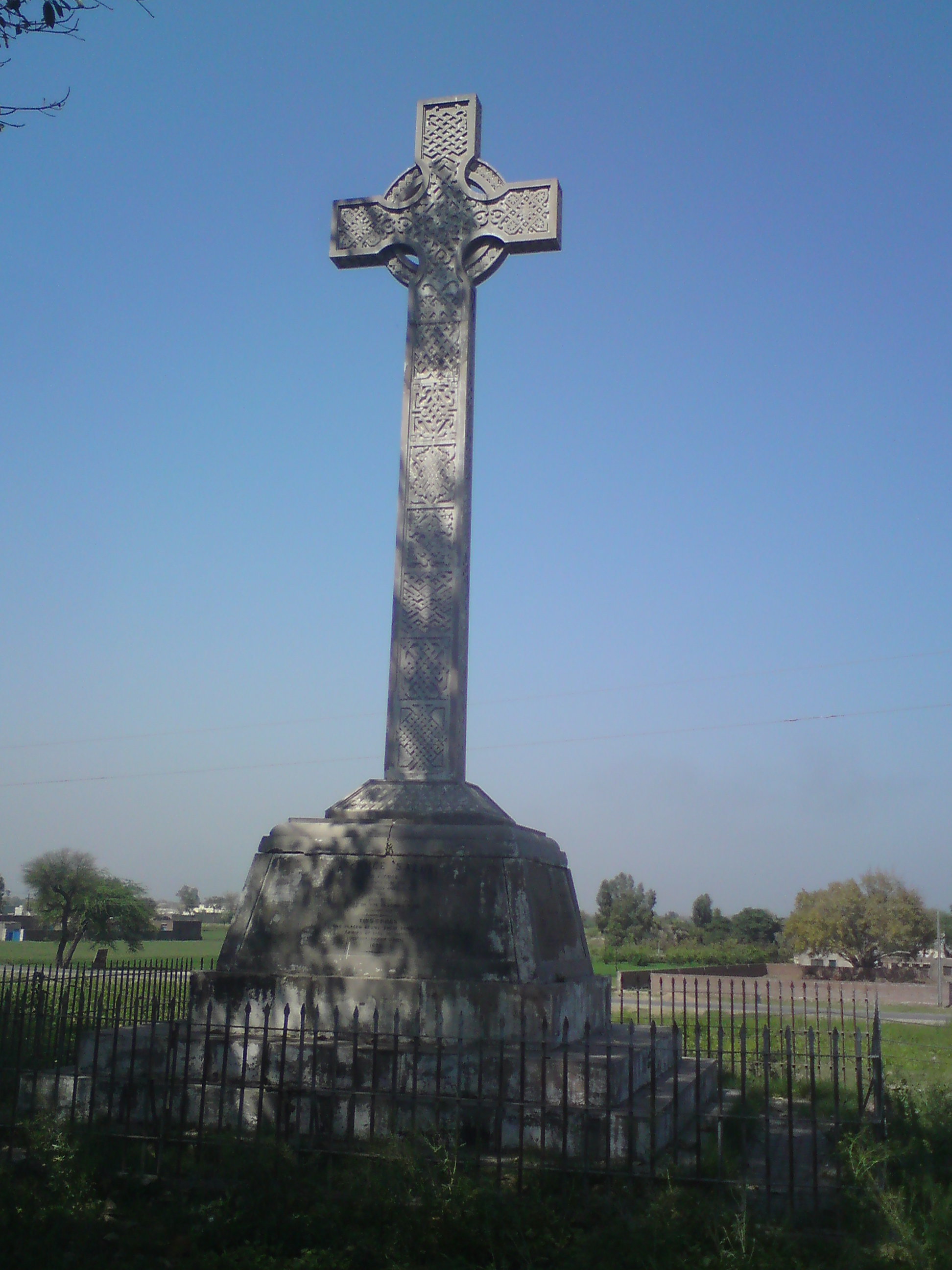 Monument of the Battle of Chillianwala that took place in 1849 between the forces of the Sikh Khalsa army and the British East India Company. This monument was made by the British Army.